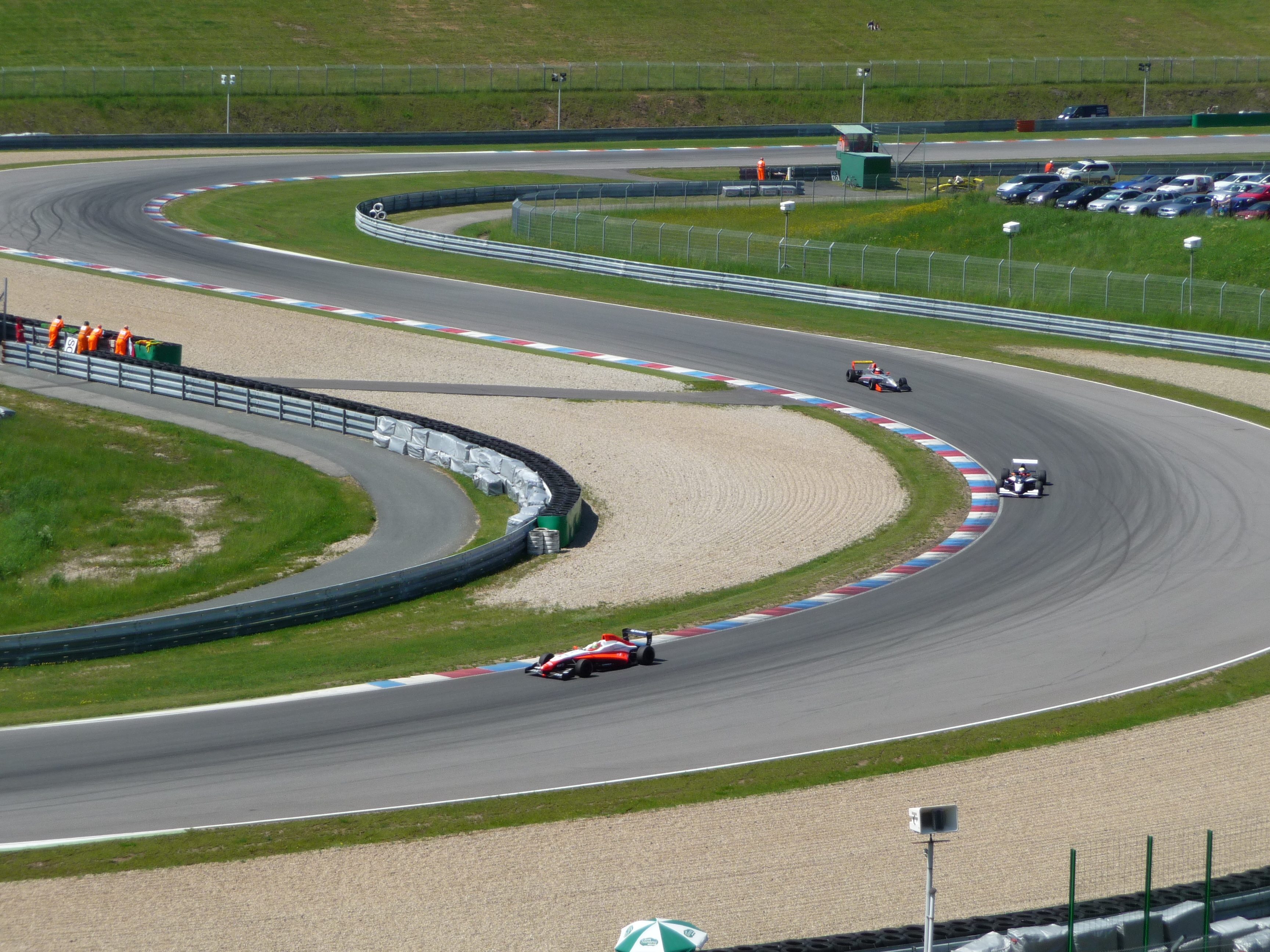 Arthur Pic, Alex Riberas and Luciano Bacheta, Eurocup Formula Renault 2.0, 2nd race, 2010 Brno World Series by Renault